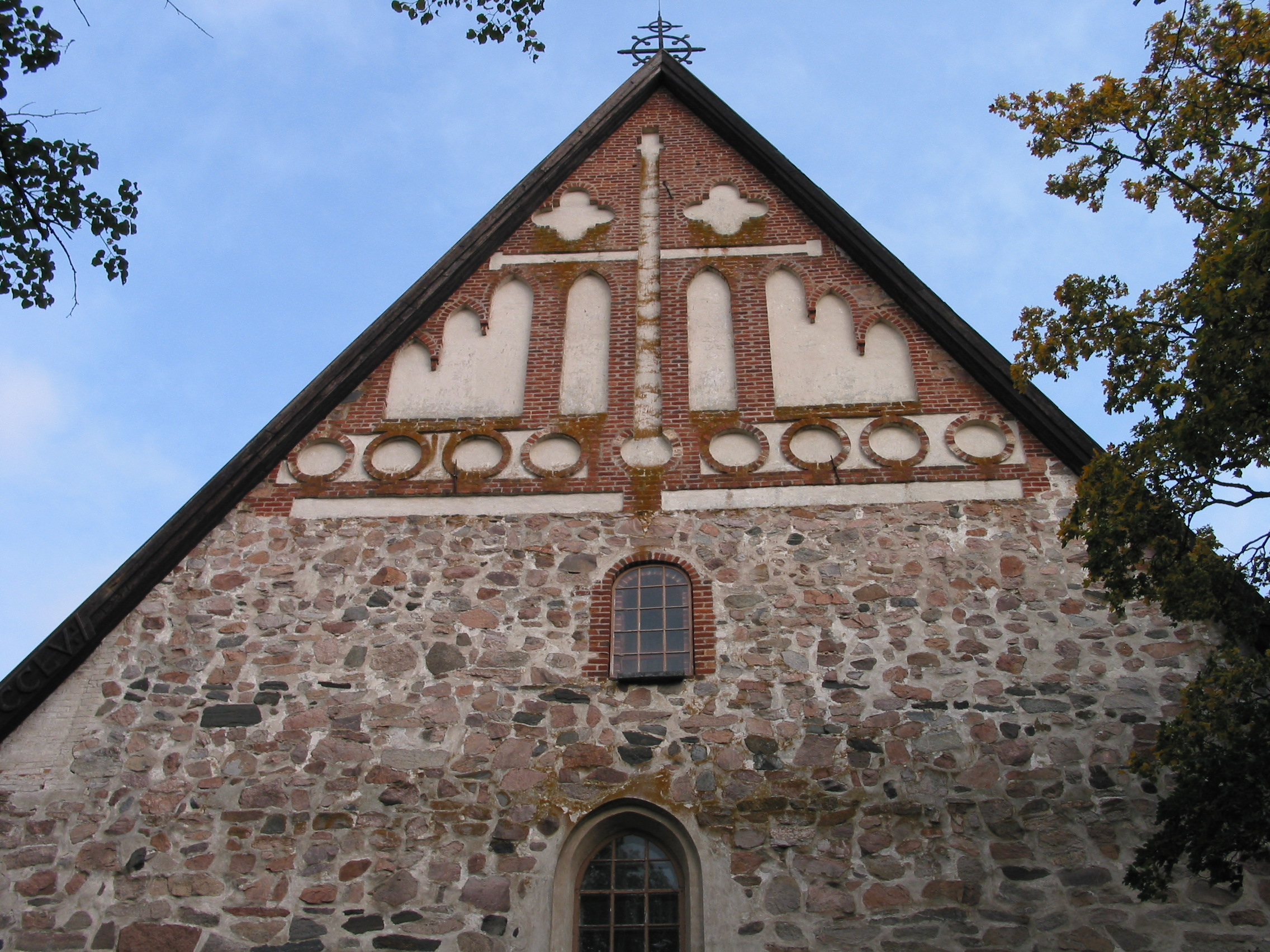 Perniö Church, West gable